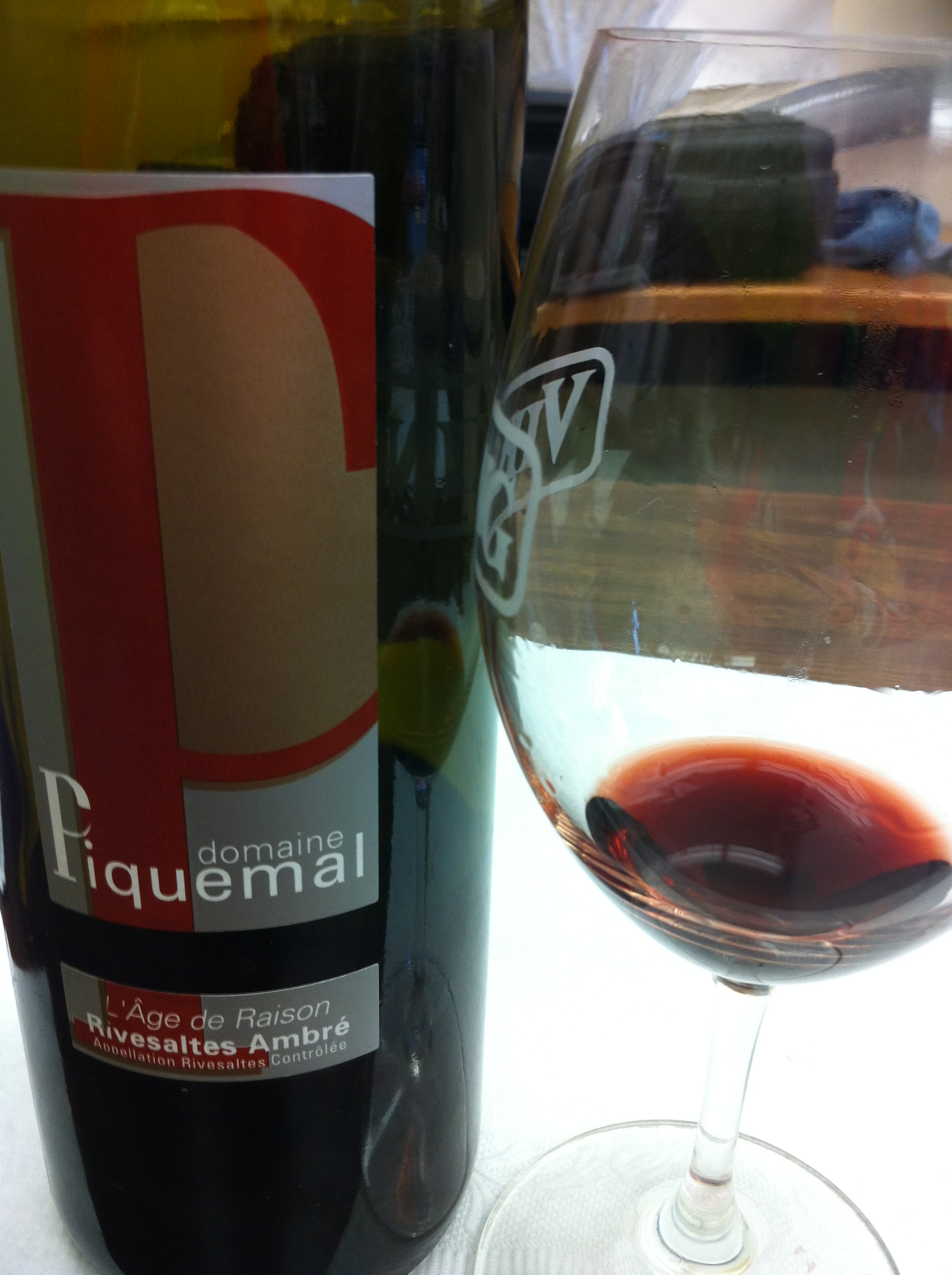 A red French fortified wine from the Langedoc-Roussilon region made primarily from Grenache.